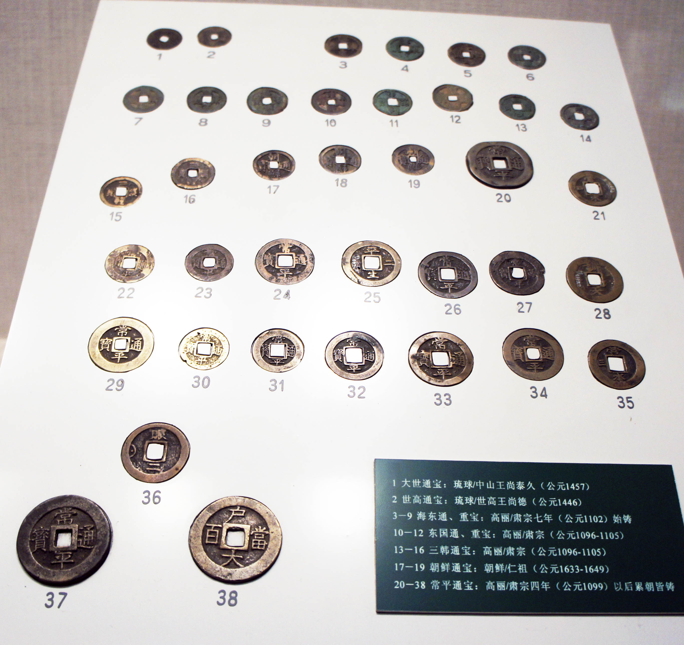 No. 1-2 Ryukyuan coins from Ryūkyū Kingdom, No. 3-16, 20-38 Korean coins from Goryeo Dynasty and No. 17-19 coins from Joseon Dynasty, representing Chinese tongbao (通宝) coinage, first issued in 621 AD.